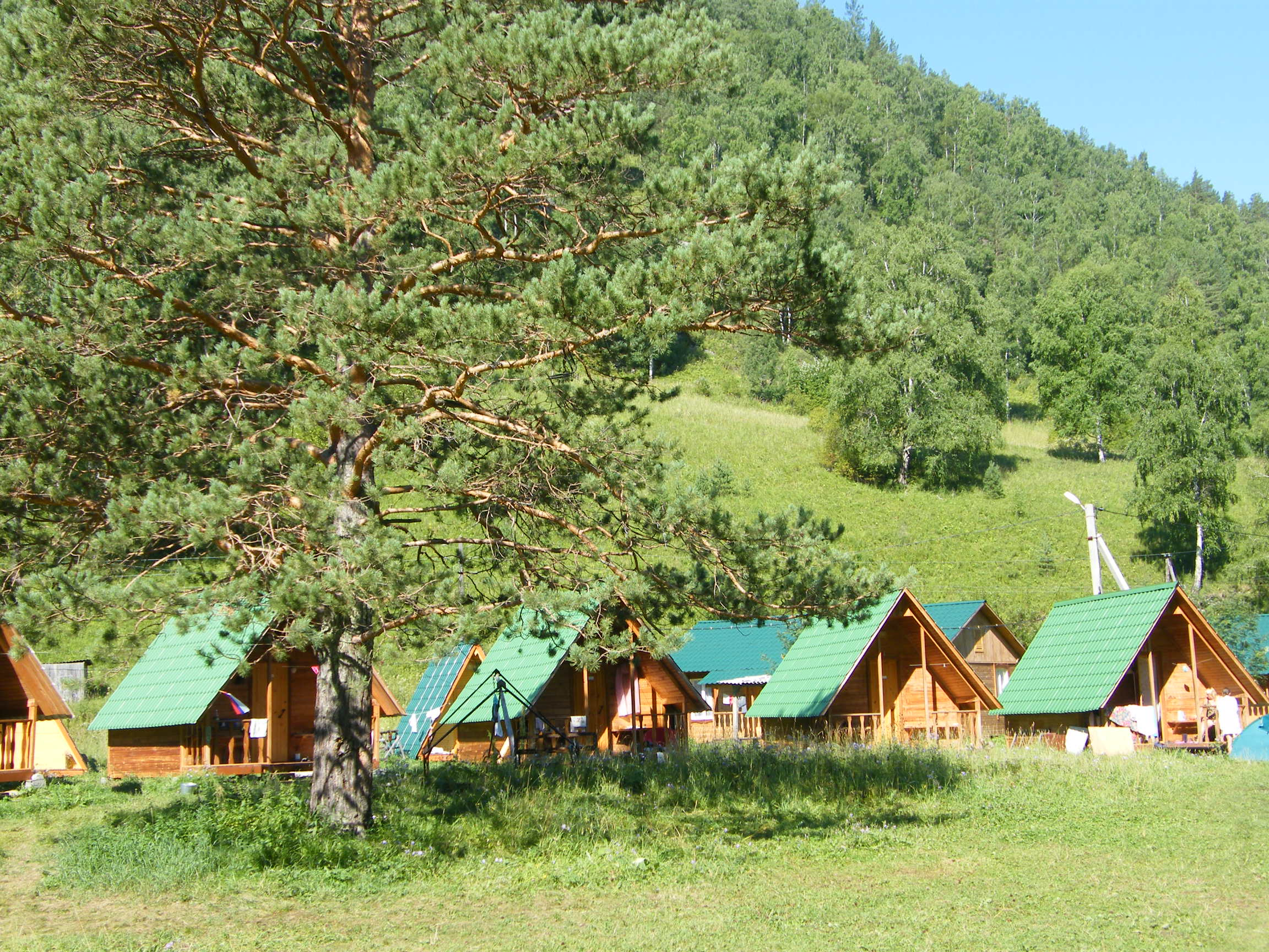 Tourist base "Erlago", Mountain Altai, Russia. General view of the living area.